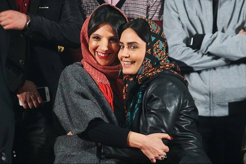 Day 4 of 35th Fajr International Film Festival at Mellat Pardis